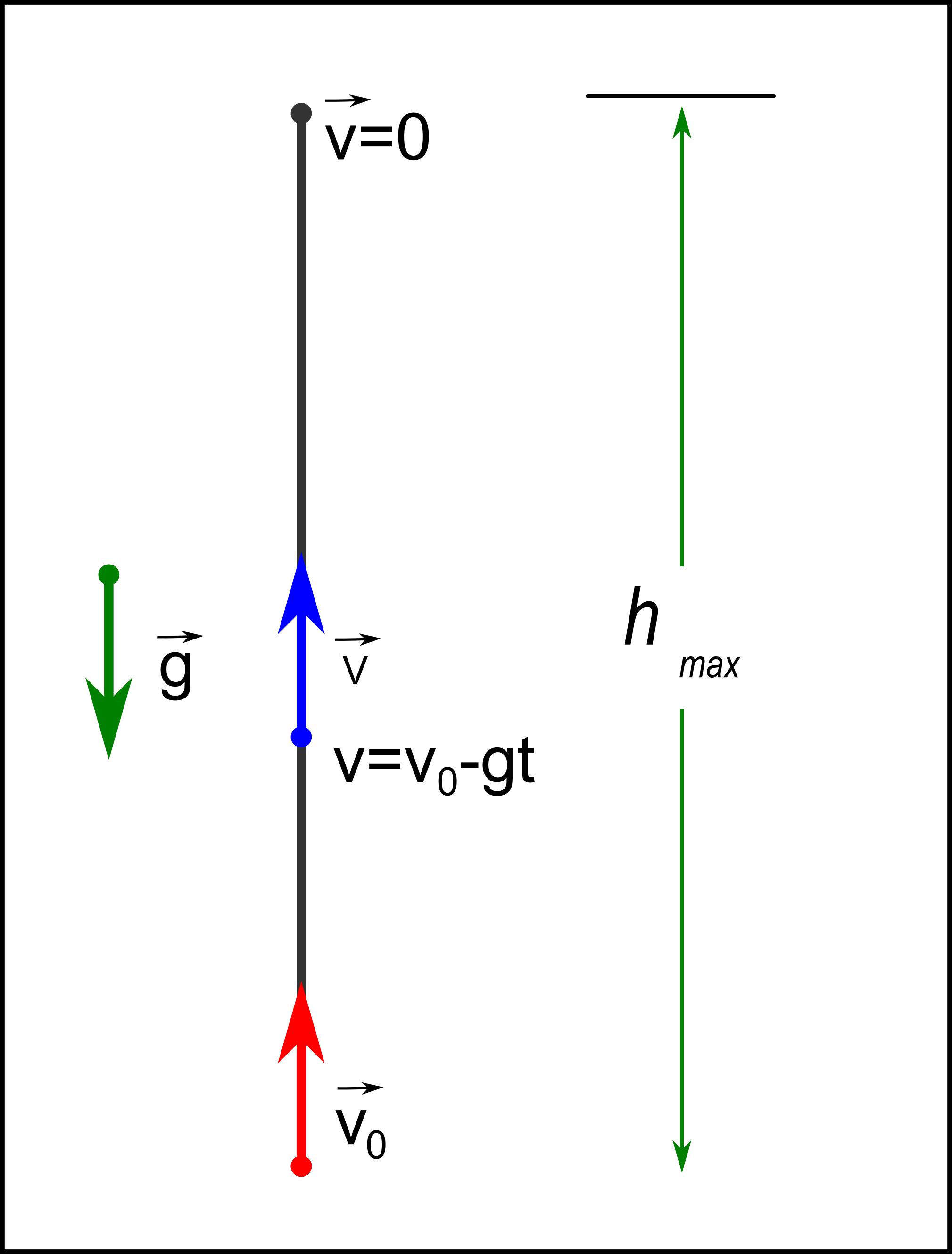 Trajectory of vertical motion